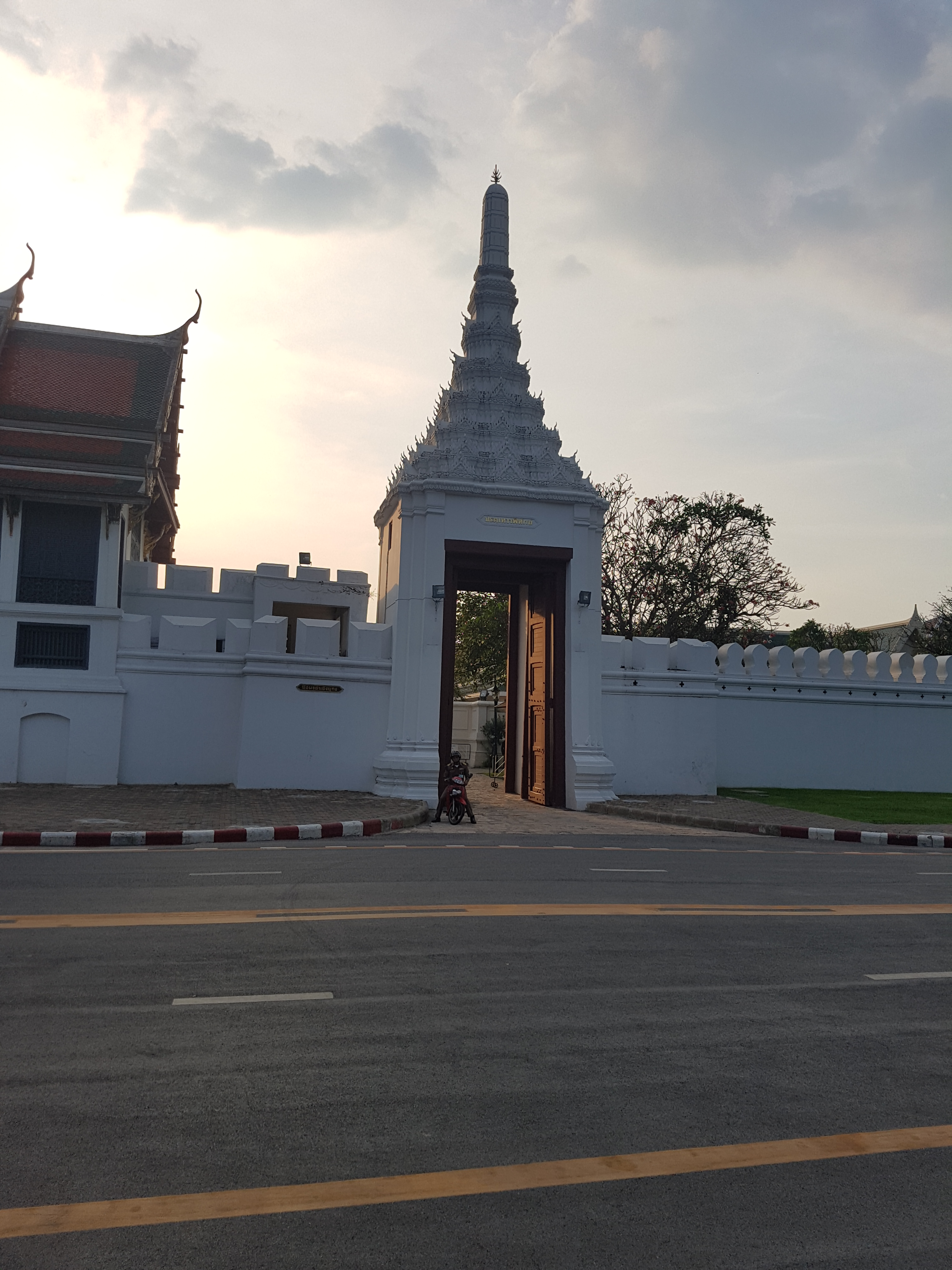 Grand Palace, Bangkok.